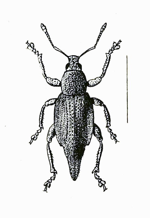 Elytrurus caudatus